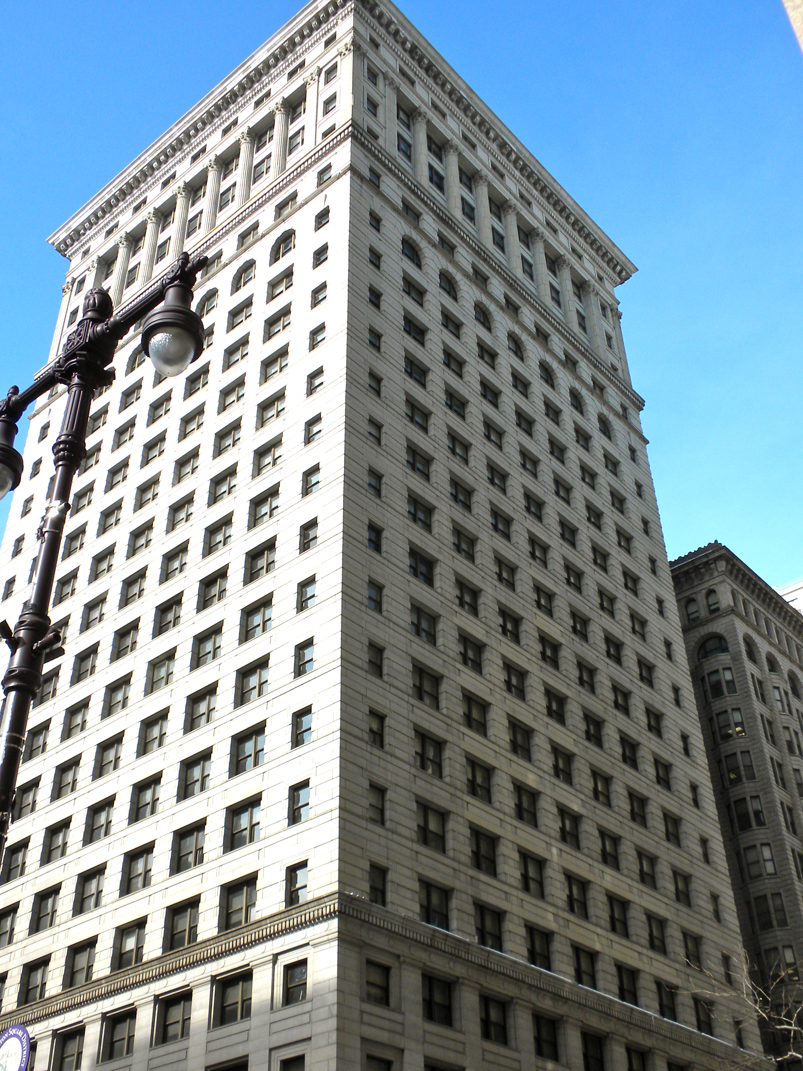 The Land Title Building on Broad Street, just south of City Hall in Philadelphia in Center City. On NRHP since December 15, 1978. 1400 Chestnut Street, Horace Trumbauer, architect.